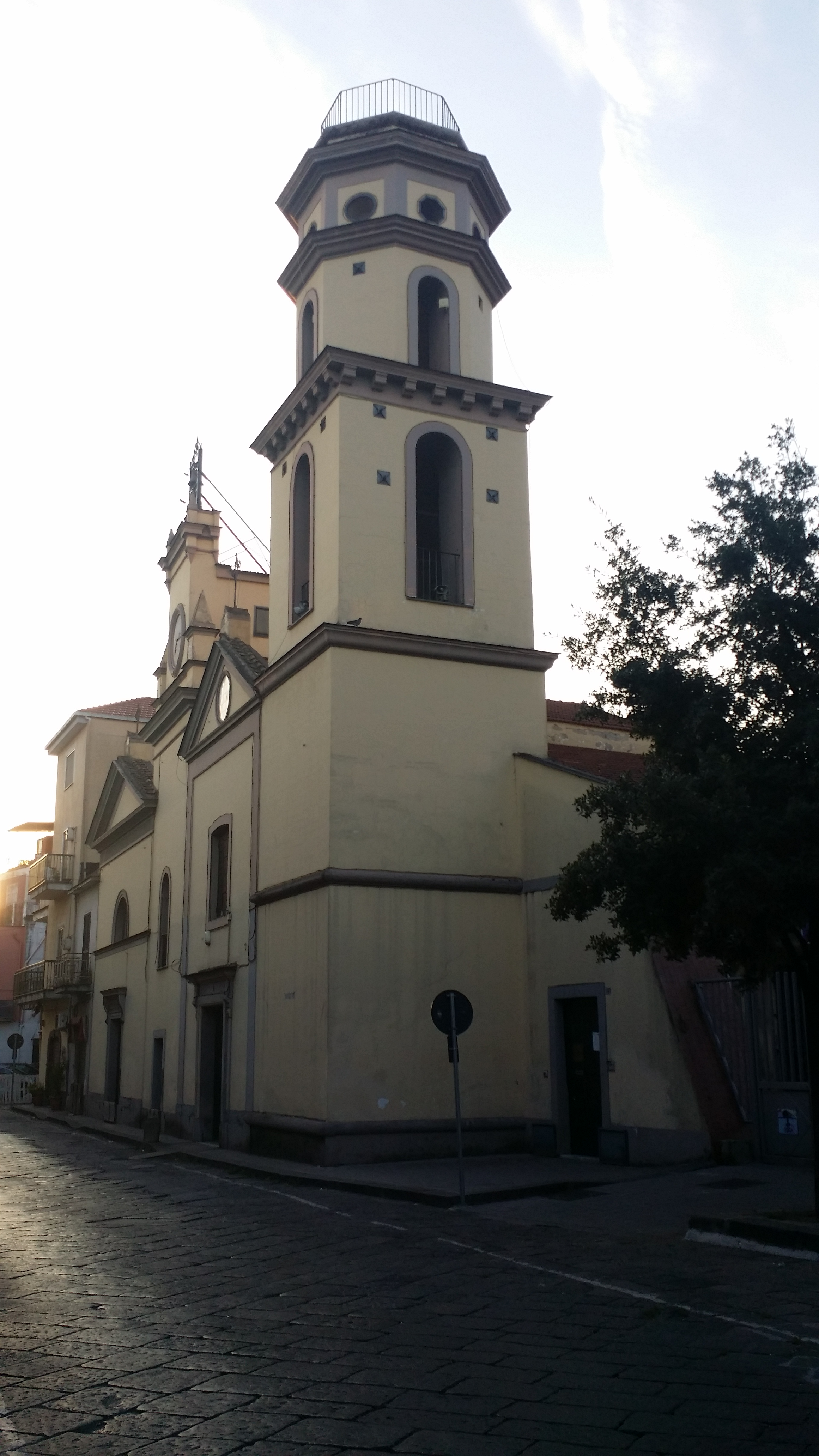 Church and congregation of Saint Catherine of Alexandria, virgin and martyr-Angri